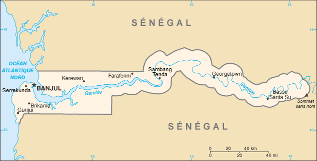 French map of Gambia